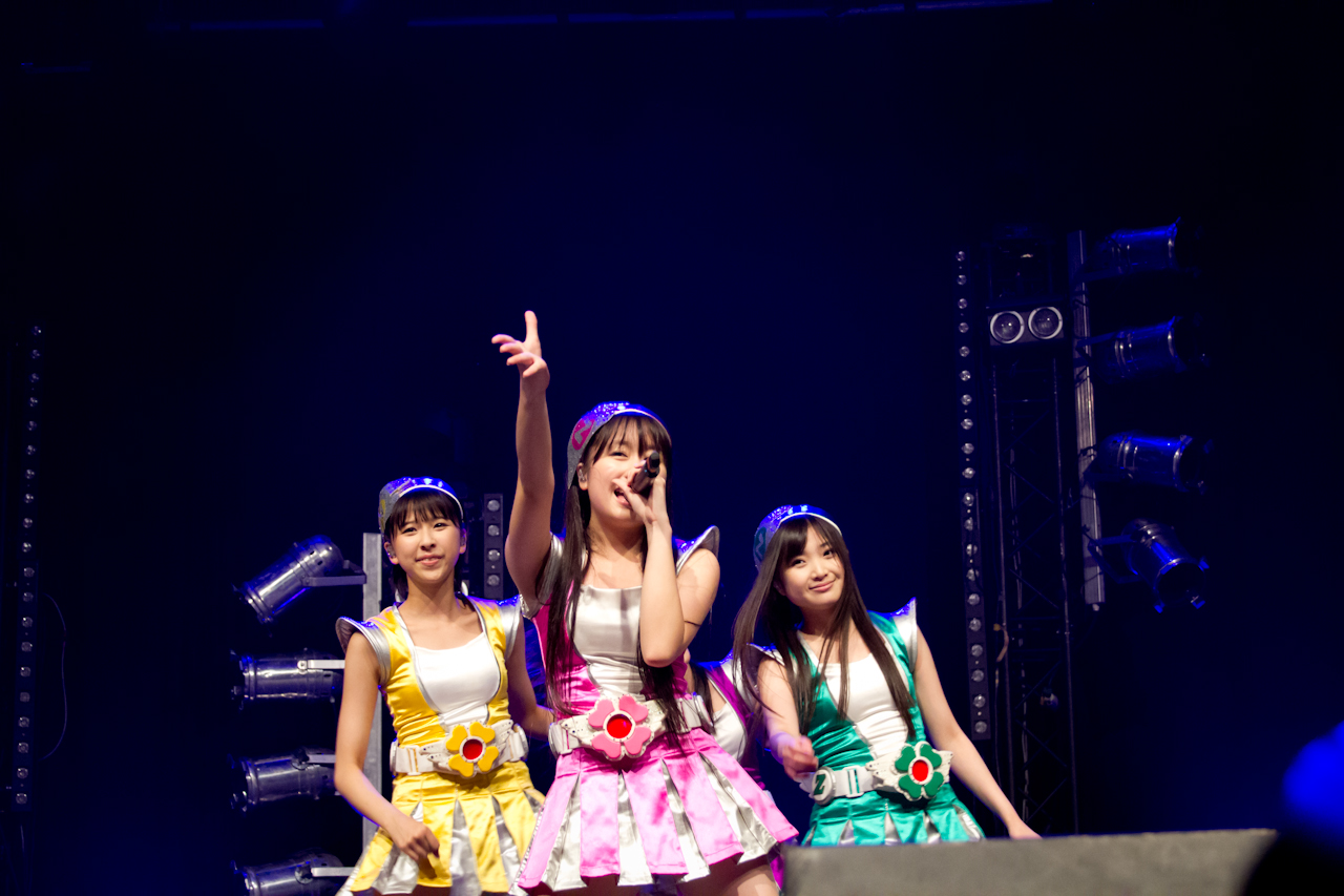 Members of Momoiro Clover Z, Japanese pop idol group. This Photo was taken in Japan Expo 2012 at Paris.